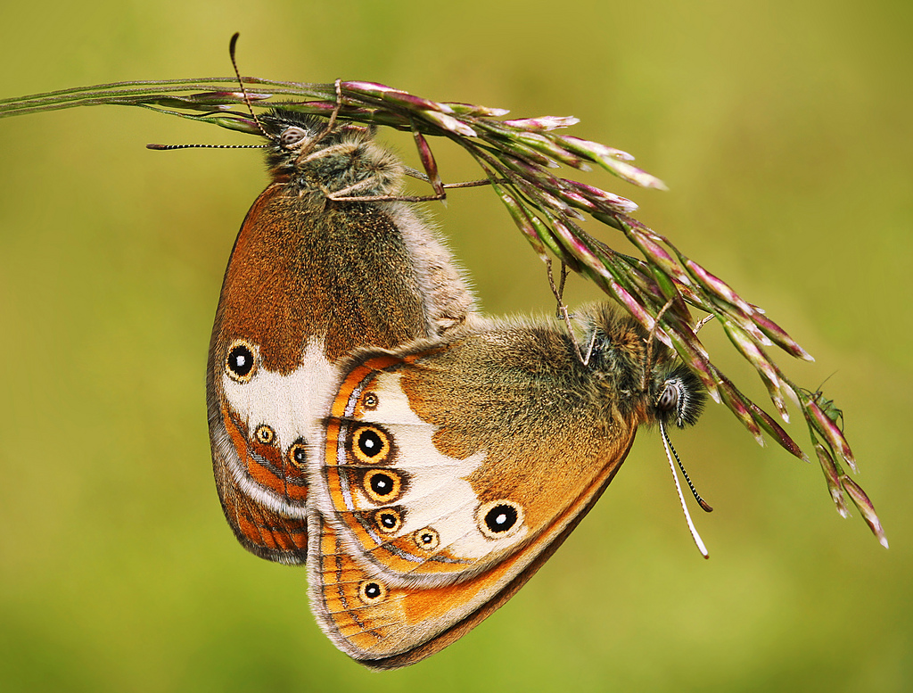 I took this photo with CanonEOS40D photocamera, CanonEF100mmMacroUSM lens. I captured these butterflies last summer... I hope you will like it ;) Please have a view of full size... Thanks :)